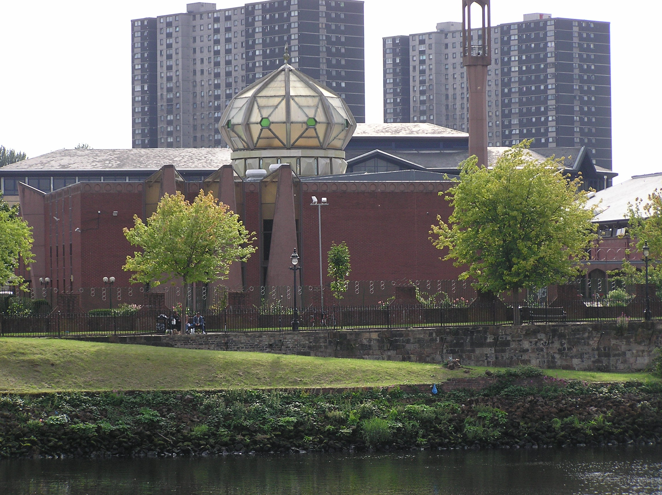 Glasgow Central Mosque in Glasgow, Scotland Photo taken by Finlay McWalter on September 4th 2005.